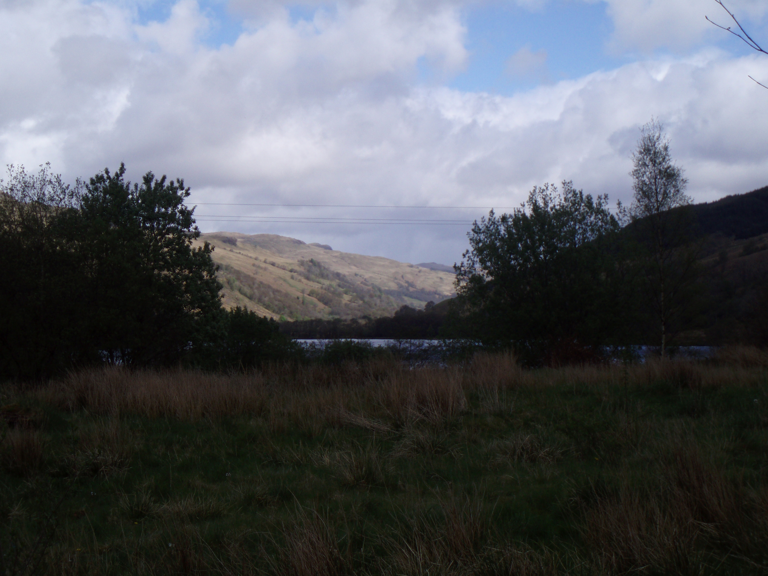 Gleann Síra ás an Dubh Loch. A Tuath